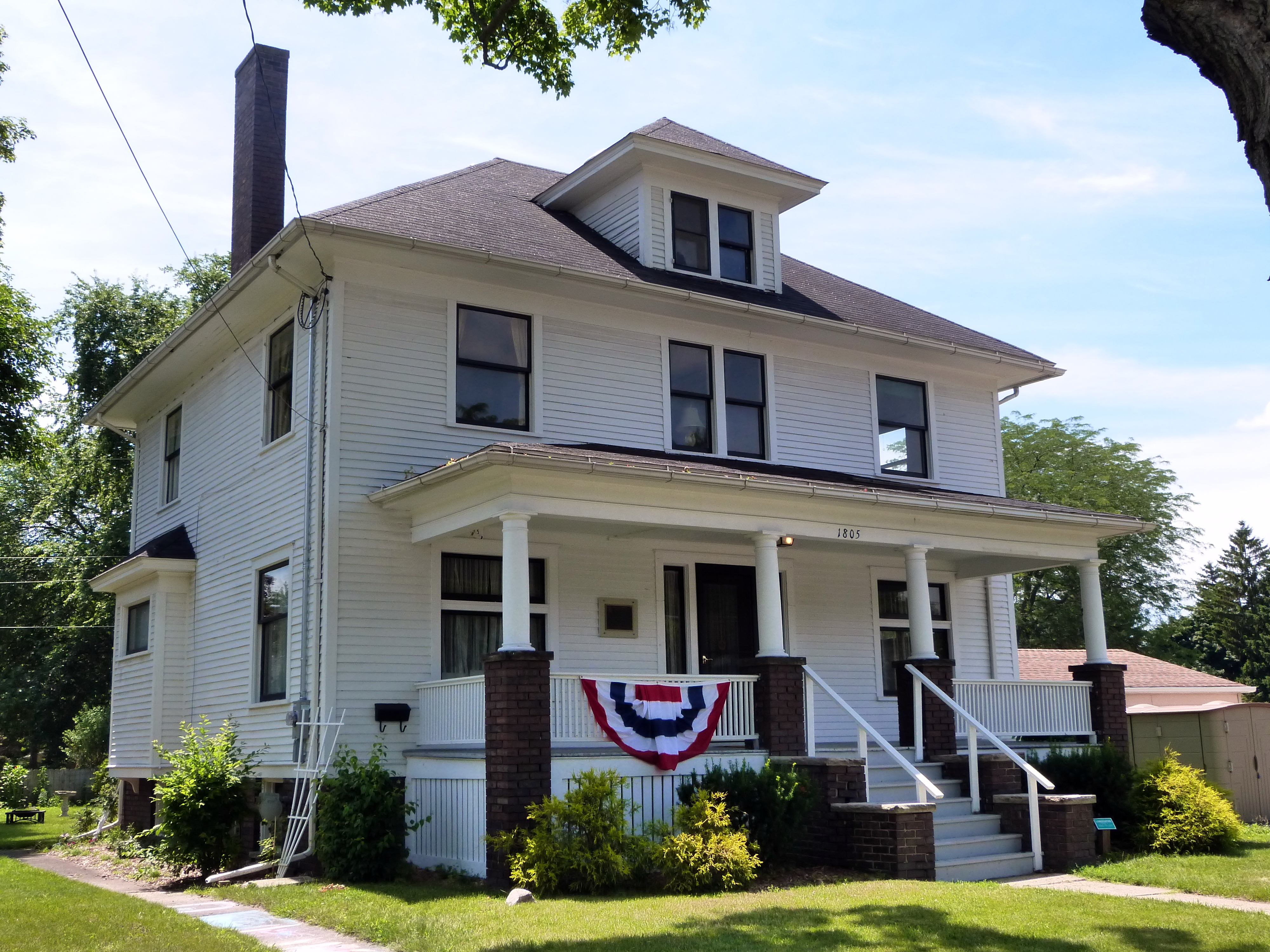 The historic Otto Roethke House (built ca. 1911), located at 1805 Gratiot Avenue in Saginaw, Michigan, United States, is listed on the US National Register of Historic Places jointly with the neighboring Carl Roethke House. The Otto Roethke House was the childhood home of poet Theodore Roethke.